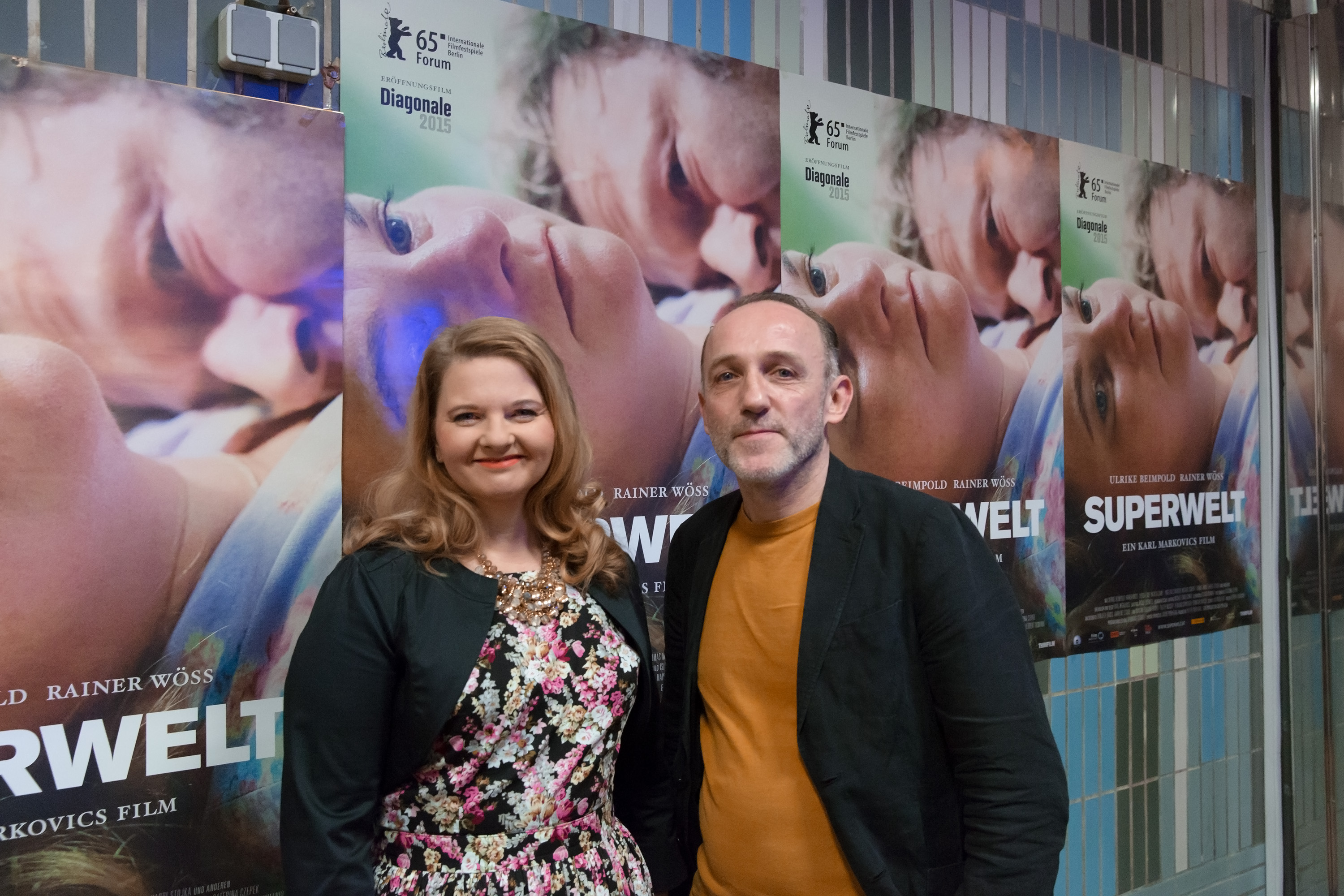 Ulrike Beimpold and Karl Markovics at the Viennese premiere of Superwelt at Gartenbaukino in Vienna, Austria.